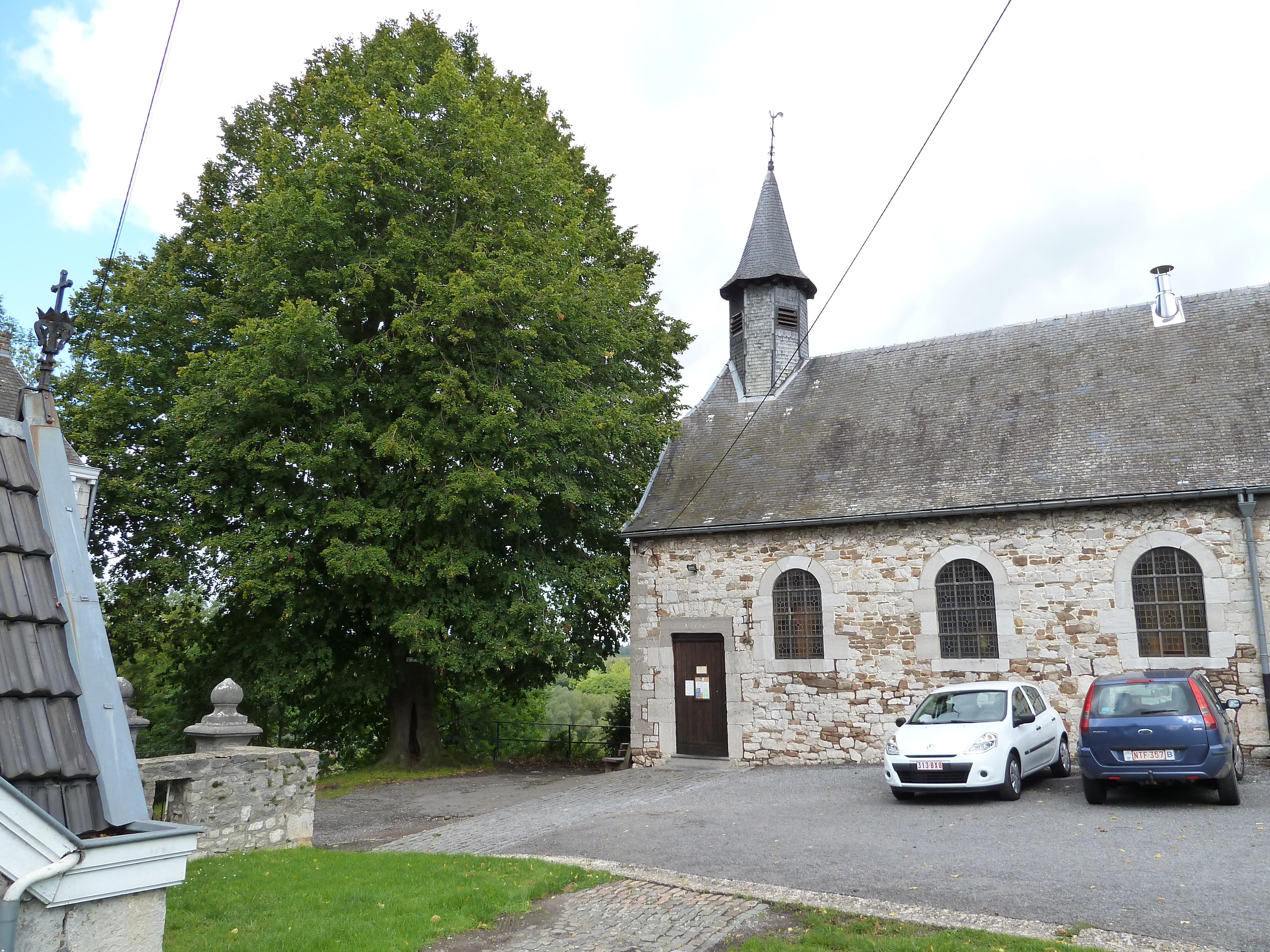 Nailtree of Le Fief next to the church, Olne, Belgium